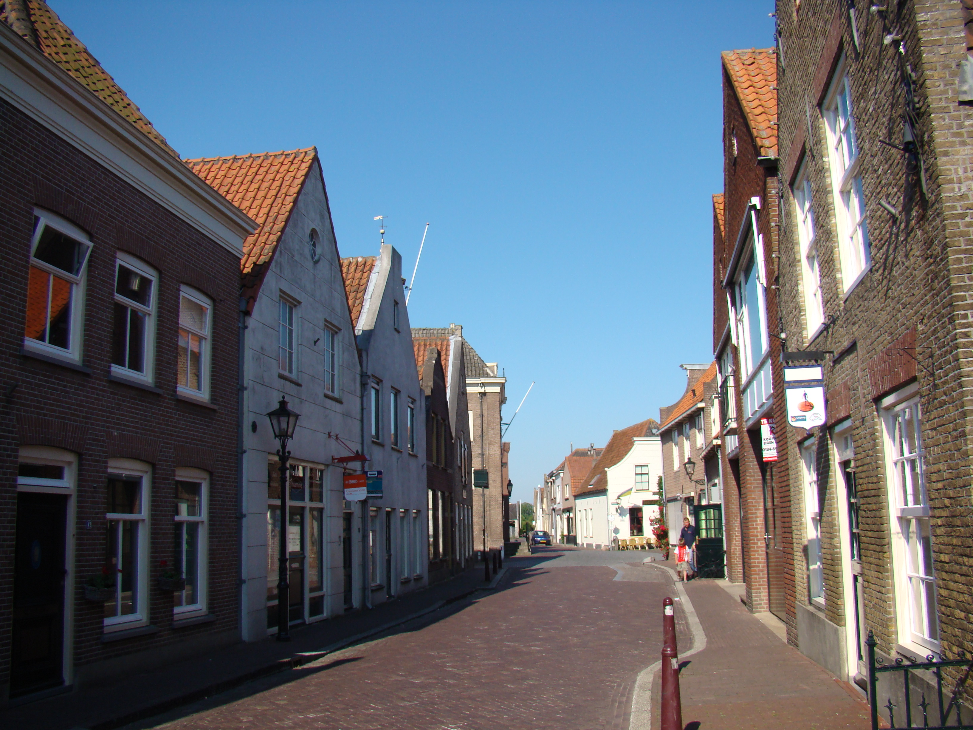 View of part of Hoogstraat Nieuwpoort, Netherlands